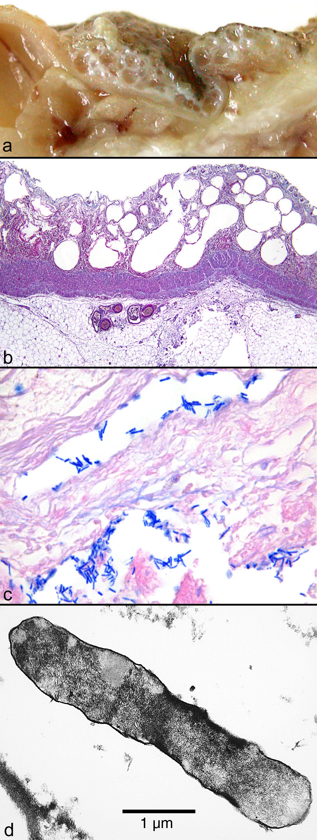 Macroscopic, histological and ultrastructural assessment of small intestine tissue. (a) Macroscopic picture of the oedematous intestinal wall with multiple submucosal and subserosal cysts. (b) Histological picture of the intestinal mucosa with areactive necrosis. (c) Gram stain of cysts with large rod-shaped bacteria. (d) Electron microscopic picture of a bacterium found in a submucosal cyst.